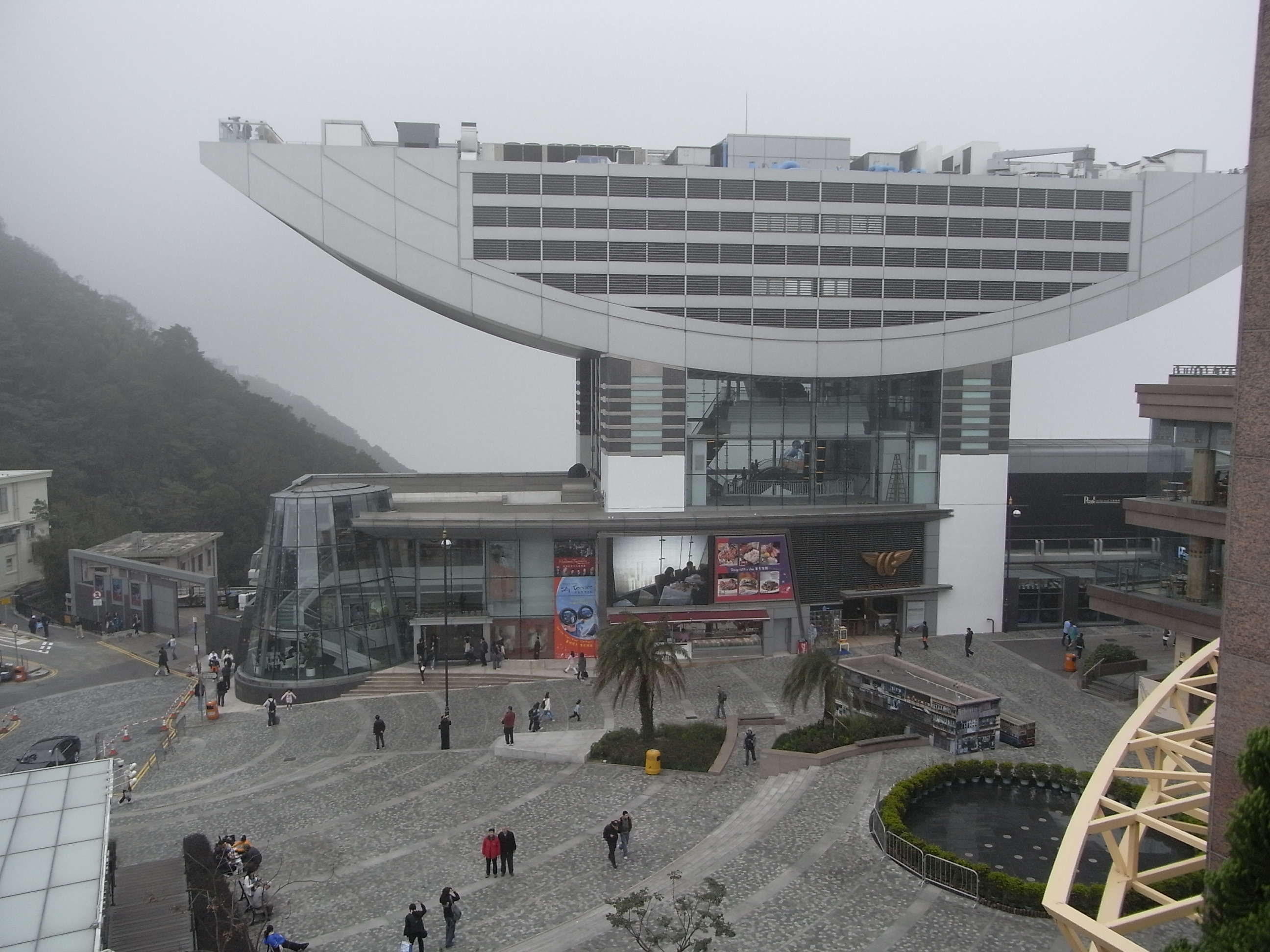 香港太平山山頂 山頂廣場 芬梨道 凌霄閣